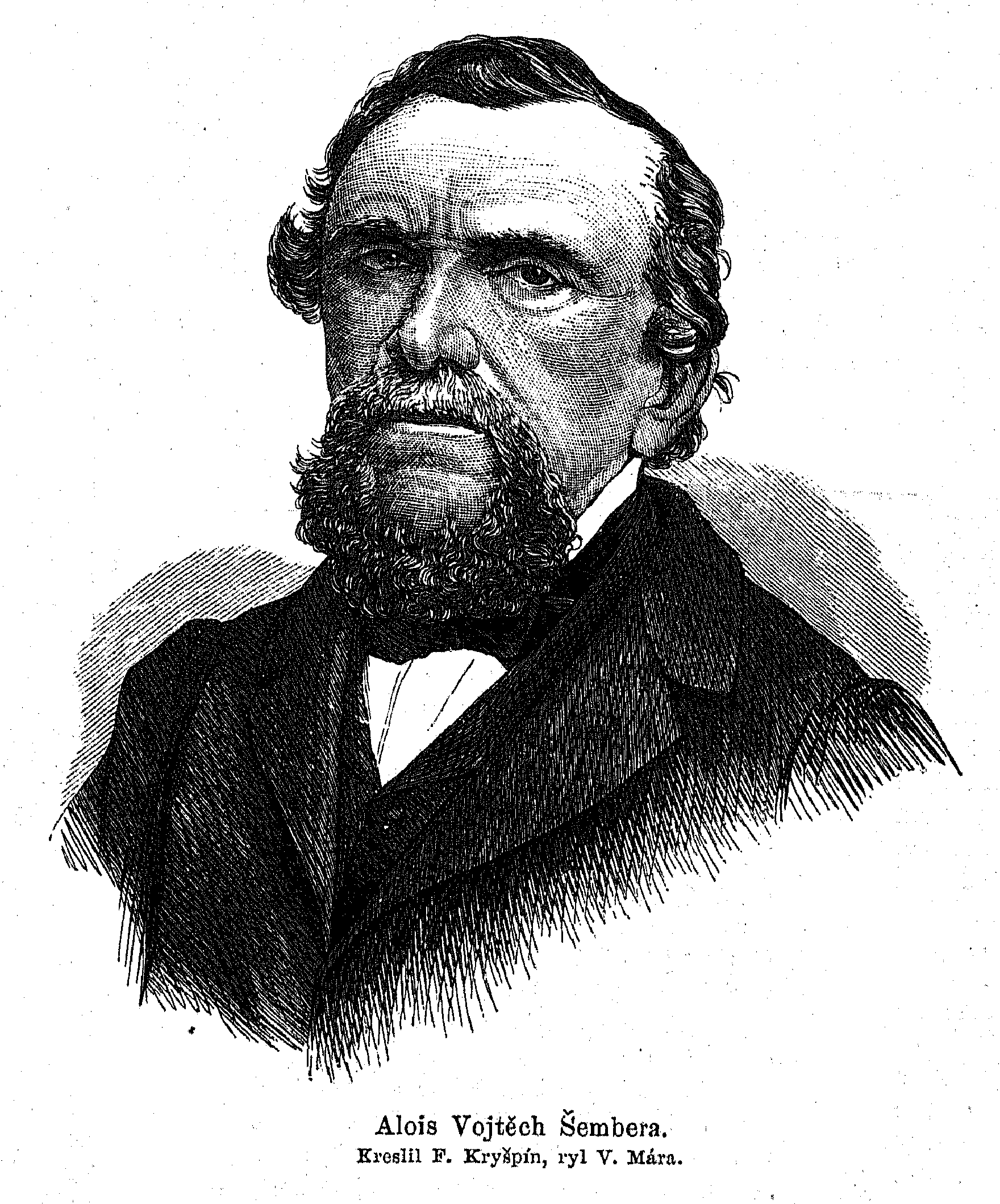 Portrait of Alois Vojtěch Šembera (1807 - 1882), Czech linguist, historian of literature and writer.